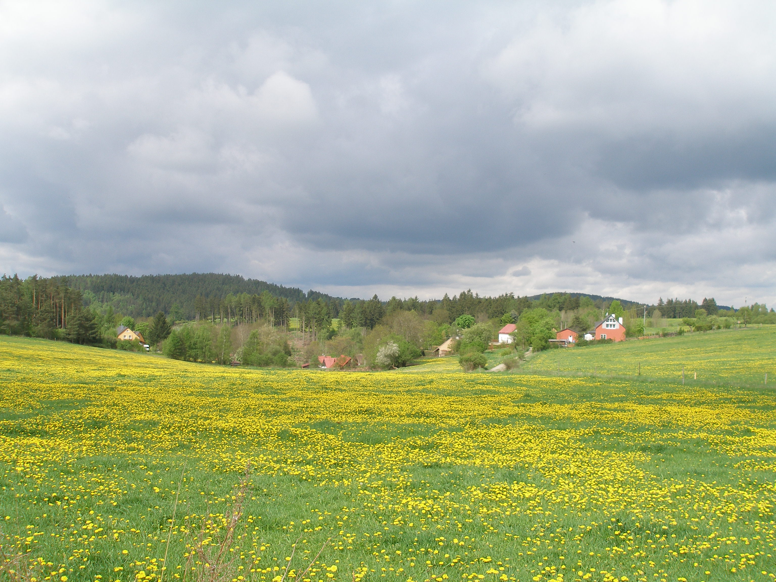 Vížka - the general view from the east